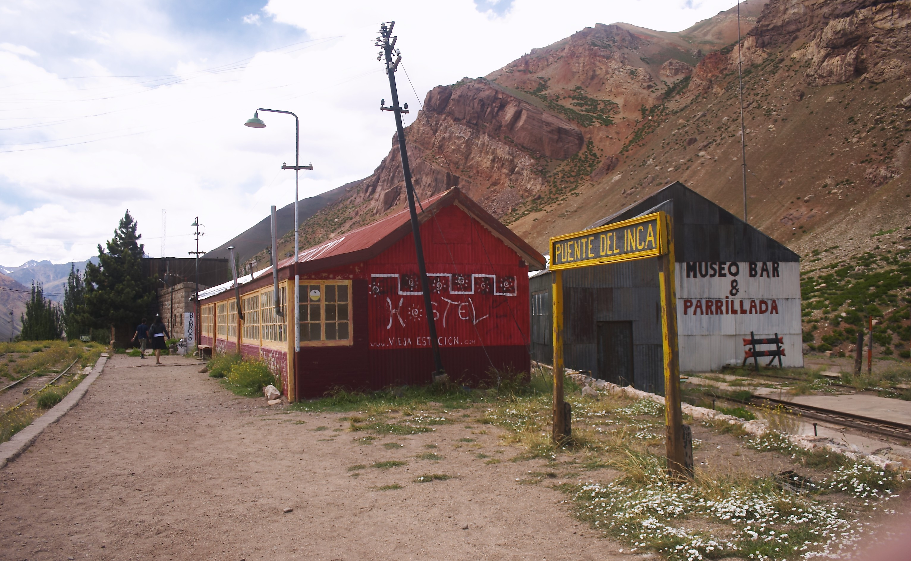 Puente del Inca station in Mendoza Province, Argentina.